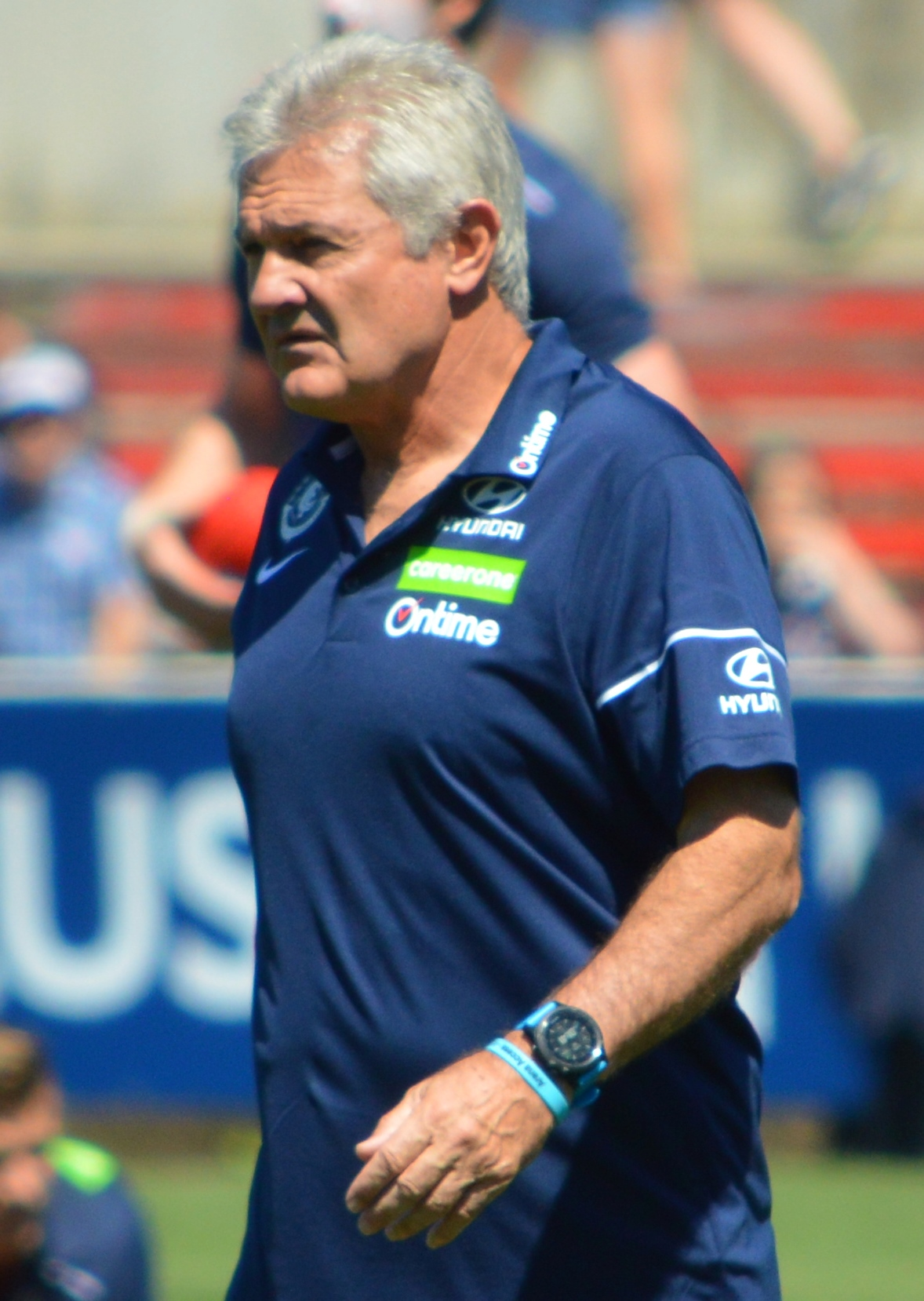 Neil Craig during a pre-season match in March 2017